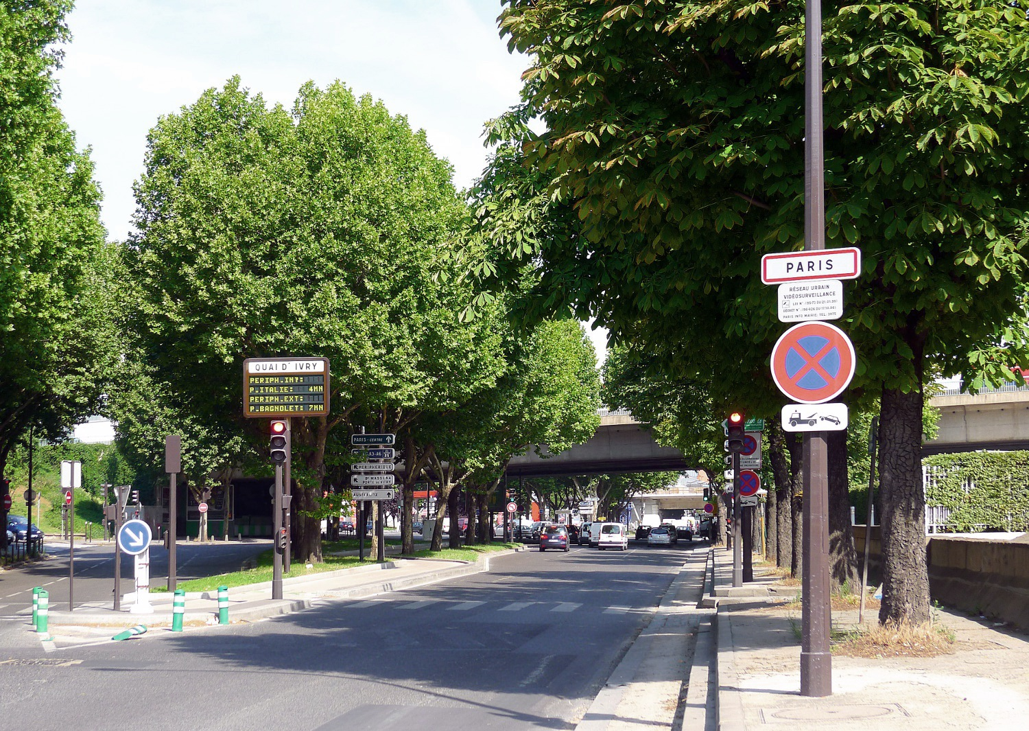 Quai d'Ivry - Paris